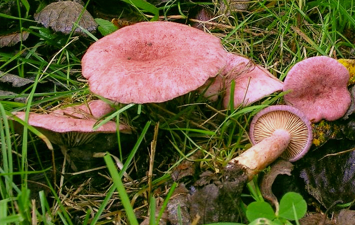 Fruit bodies of the milk mushroom Lactarius lilacinus (Lasch: Fr.) Fr. Specimens photographed in Borlänge, Dalarna, Sweden.